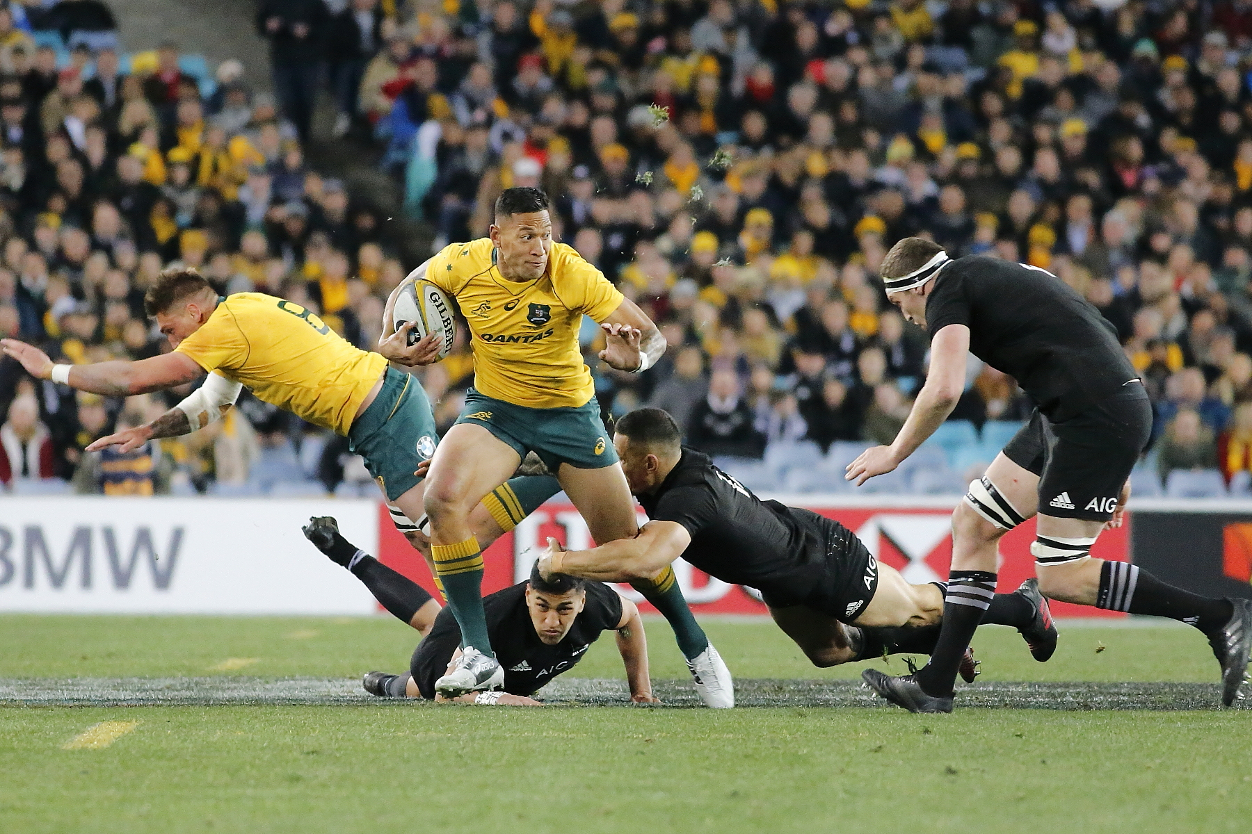 2017.08.19.20.21.25-AUSvNZL-0003 2017 Rugby Championship, Bledisloe 1, Australia vs New Zealand, 19th August, ANZ Stadium, Sydney